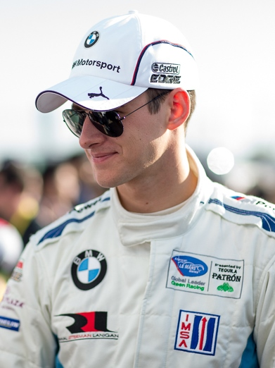 Sports car racing driver John Edwards at Sebring International Raceway on the pre-race grid